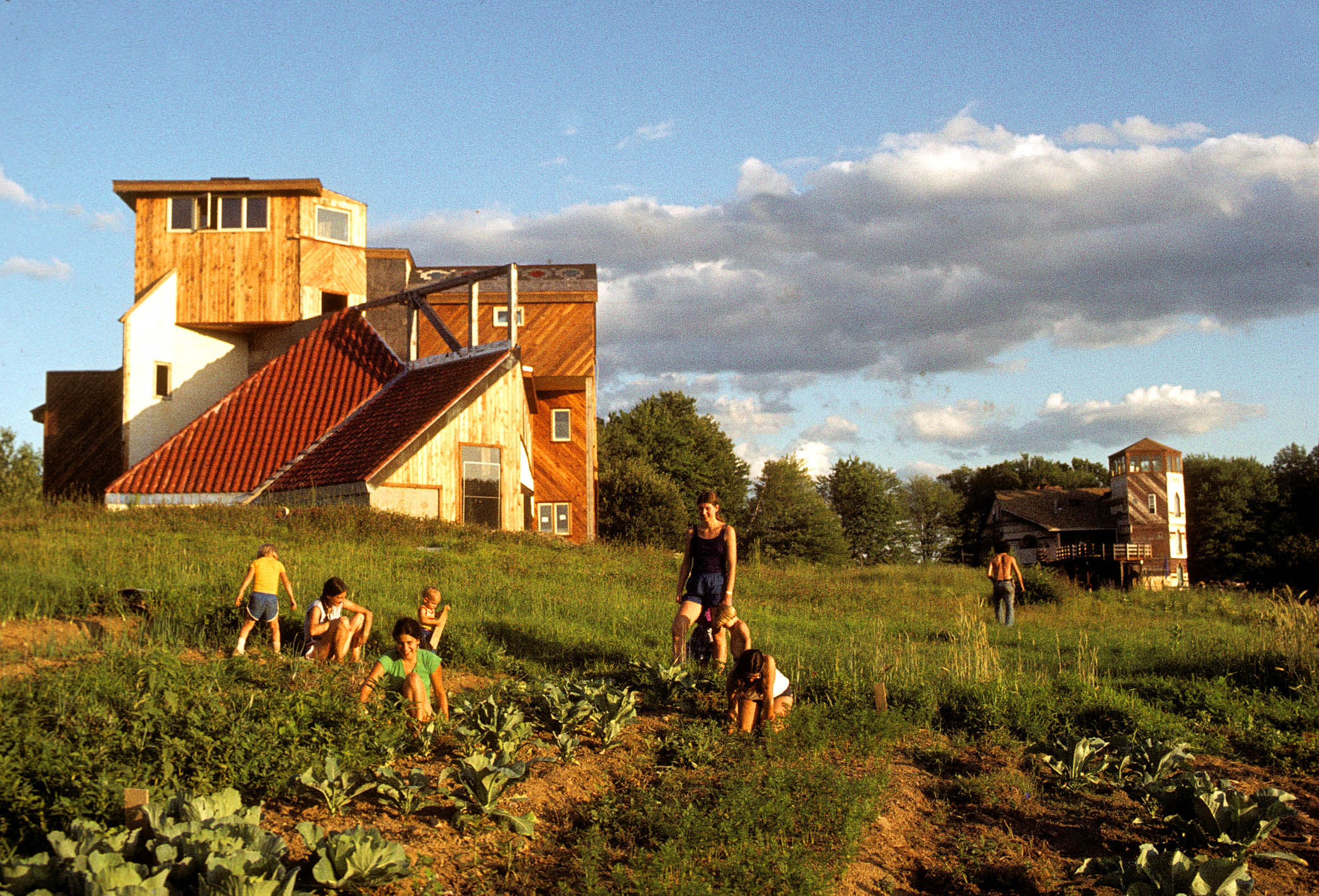 Renaissance Community garden with one of the newly constructed houses in the background.